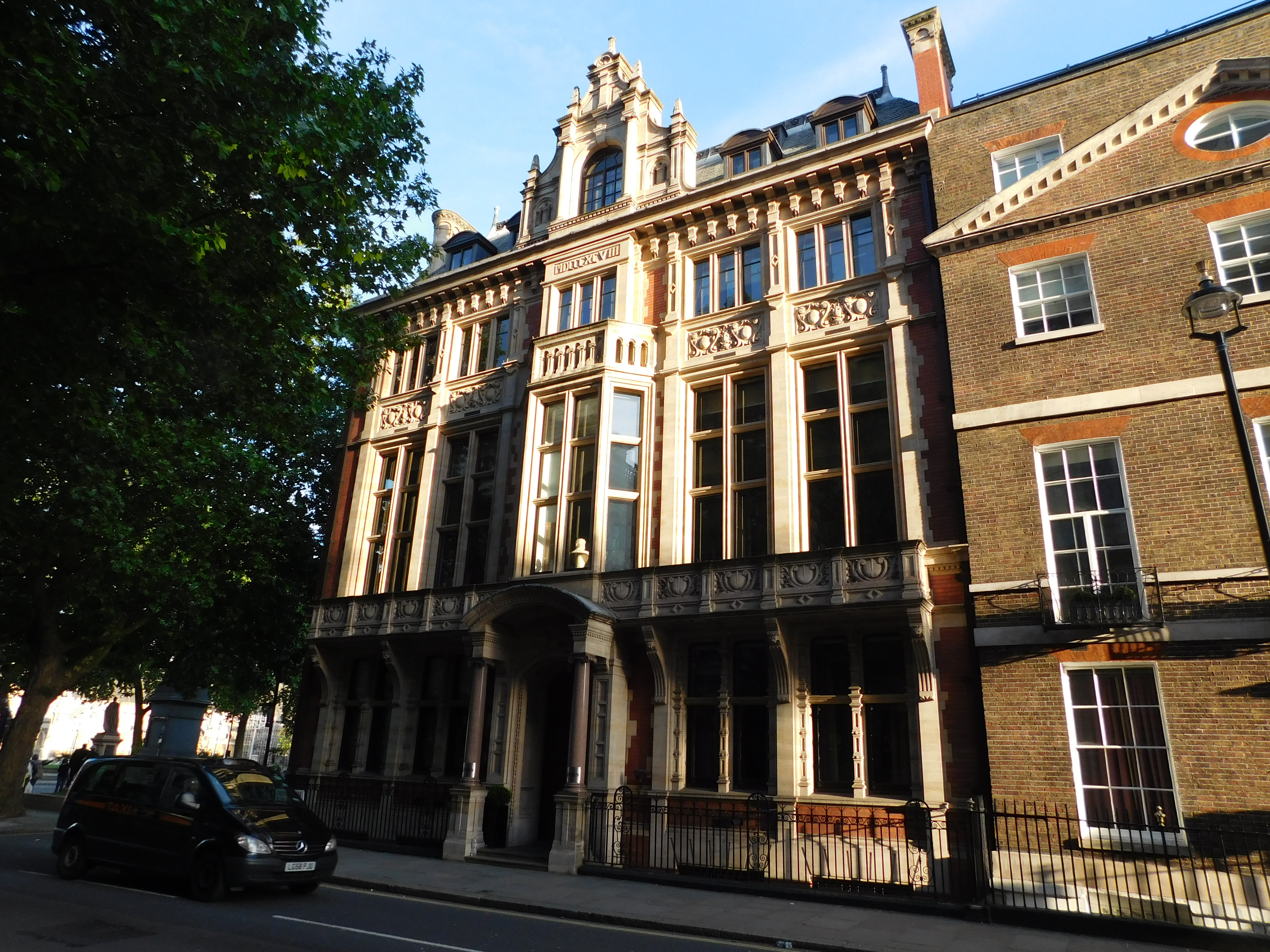 Royal Institution of Chartered Surveyors Wikidata has entry Q743381 with data related to this item.